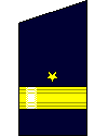 United States Commodore/Commodore Admiral/Rear Admiral (Lower Half) Insignia Generic rank insignia picture available from several United States Navy sources; released into the public domain by the Department of the Navy.